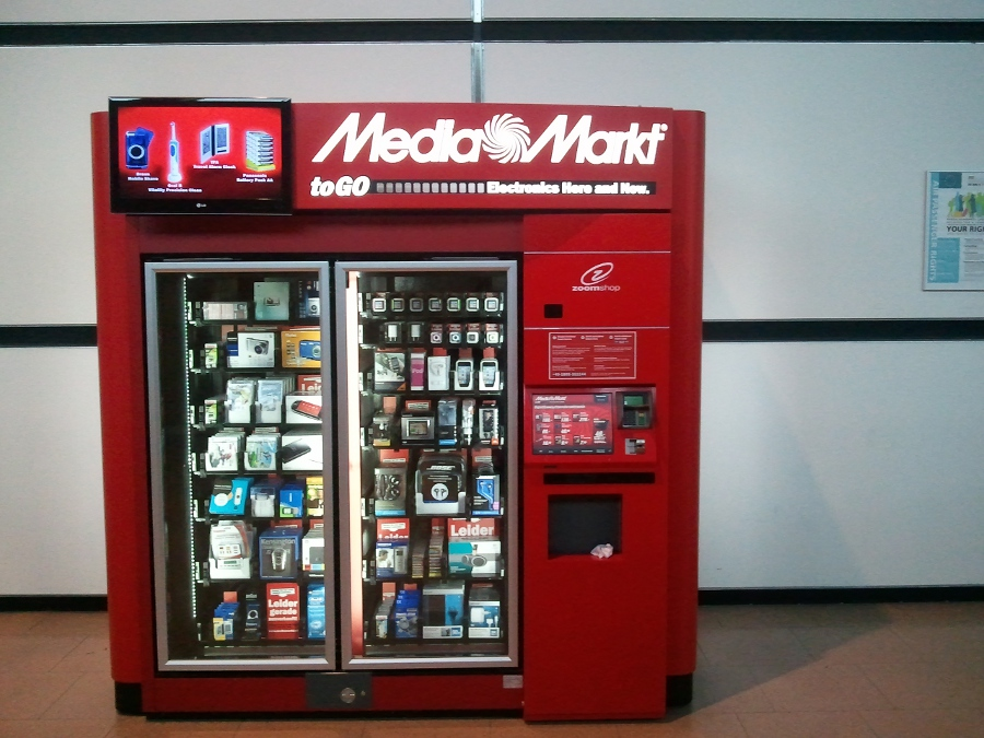 Vending machine at Hamburg Airport. Contains Cameras, game consoles, alarm clocks, internet usb sticks and many other things.